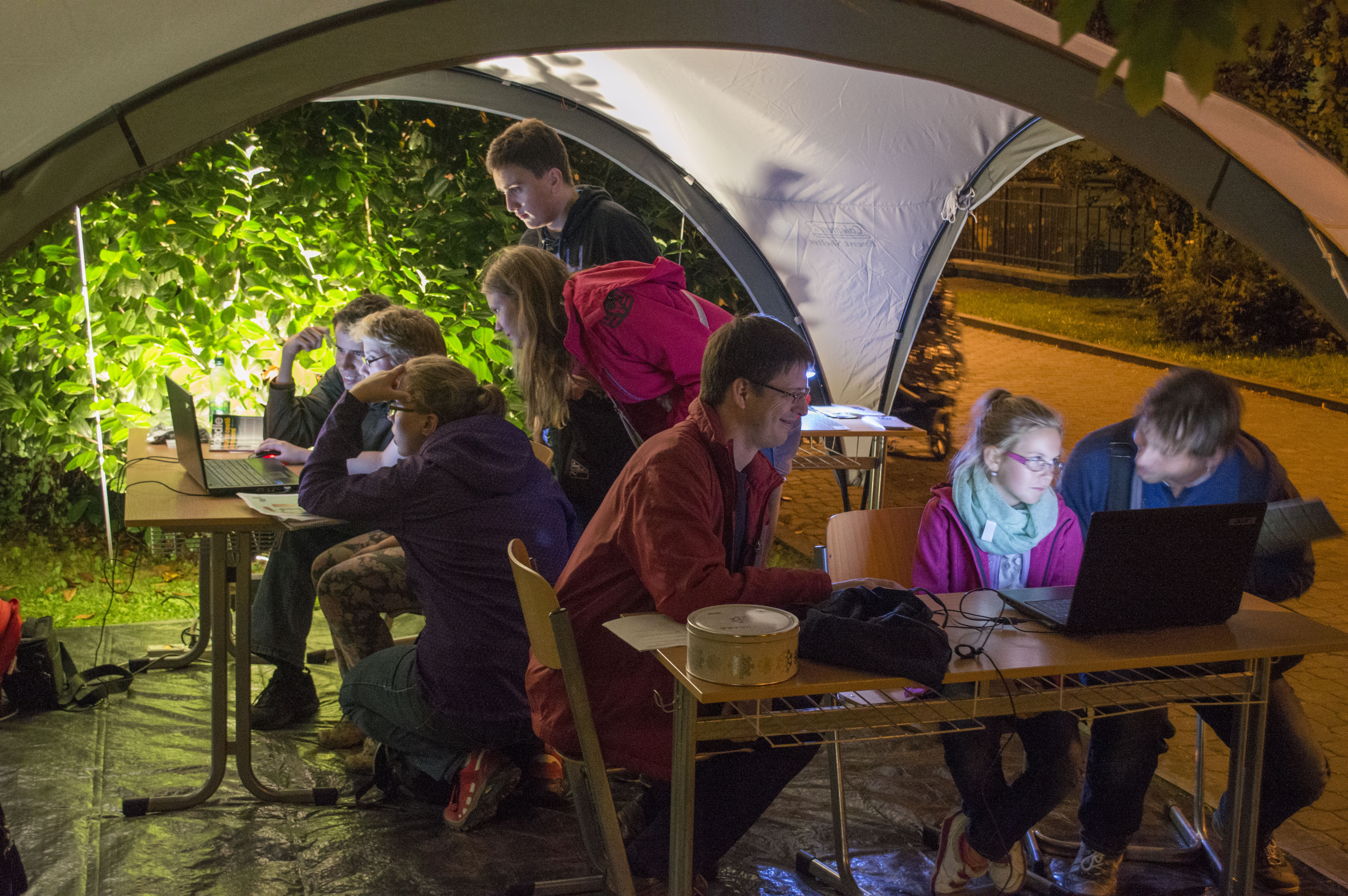 Tent of Wikipedia in areal of Faculty of science of Masaryk university during the Night of scientists (Noc vědců). 25th September 2015.